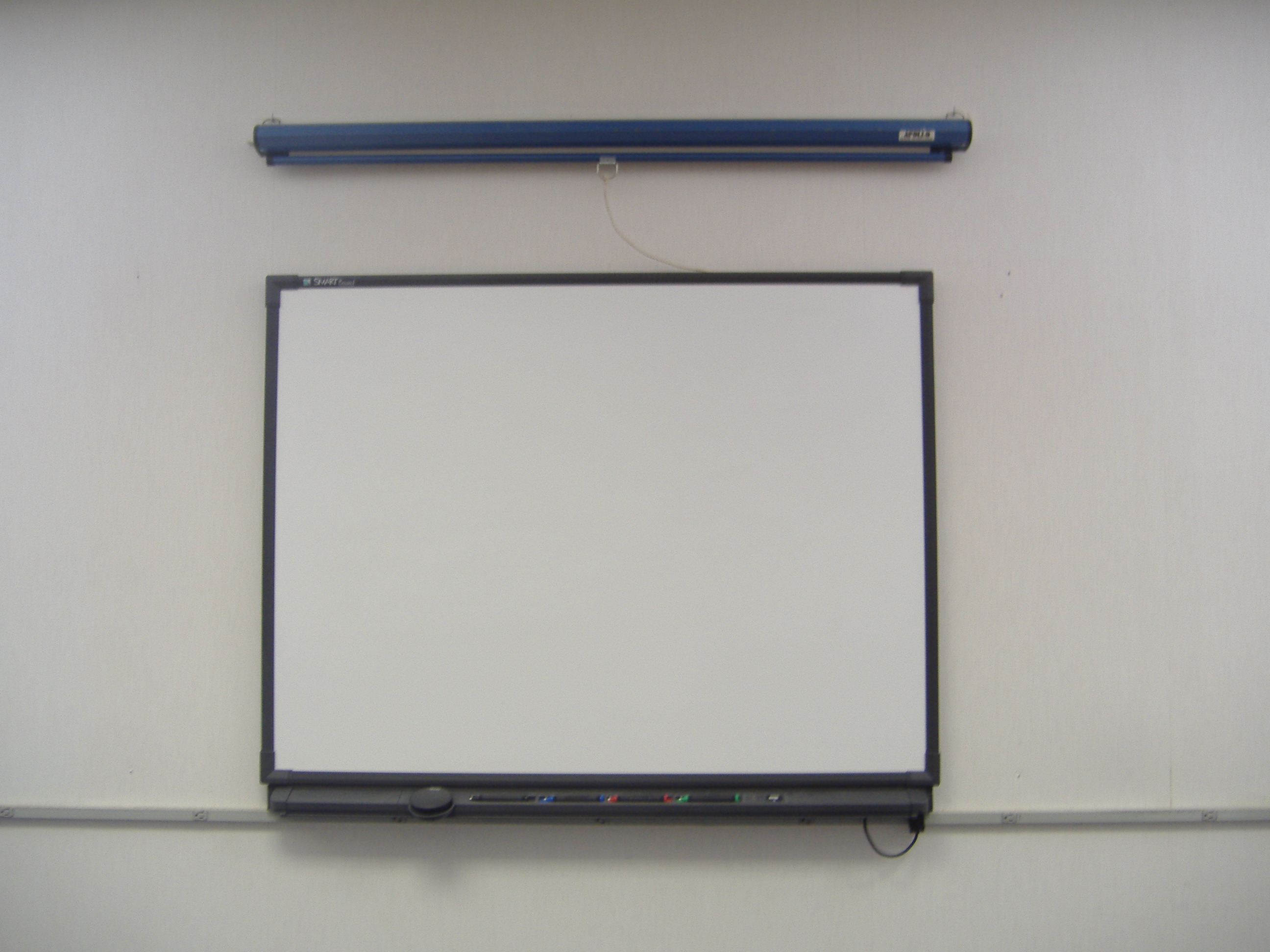 Smartboard (SB580) in a classroom